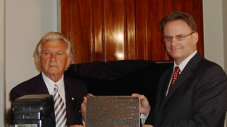 Bob Hawke with Labor leader Mark Latham unveil a plaque in 2004 to commemorate the centenary of the Chris Watson Labor government in 1904.